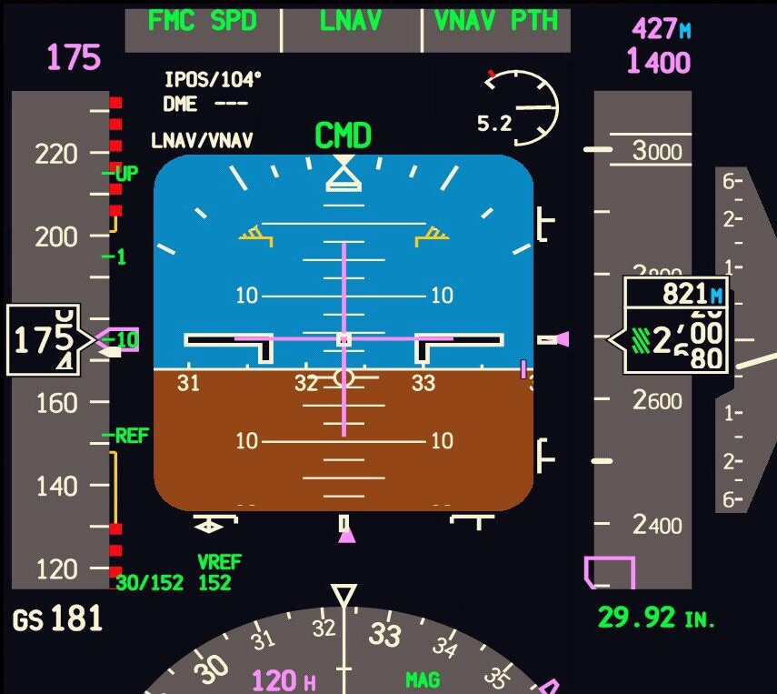 Primary Flight Display of a Boeing 737-8Q8 (The aircraft tail-numbered 9Y-ANU) during descent/approach